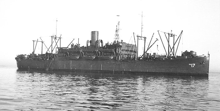 underway, circa 1944-45, location unknown.